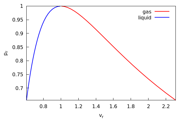 Below the critical temperaure, gases condense to liquids. This figure shows the relationship via tie-lines (not shown) between the vapor pressure and the volumes of the two phases in equilibrium with each other.